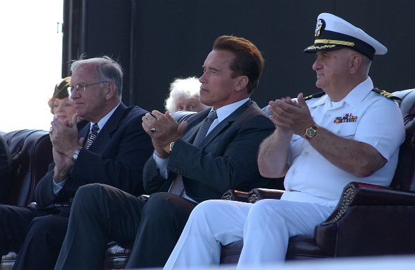 San Diego (May 29, 2005) – From left, San Diego Mayor Dick Murphy, California Gov. Arnold Schwarzenegger and Cmdr. Ron Ritter applaud World War II veterans during a 60th anniversary commemoration ceremony of World War II. The ceremony was organized by the Department of Defense World War II 60th Anniversary Commemoration Committee to pay tribute and recognize World War II veterans for their outstanding service and sacrifice during the Memorial Day weekend.